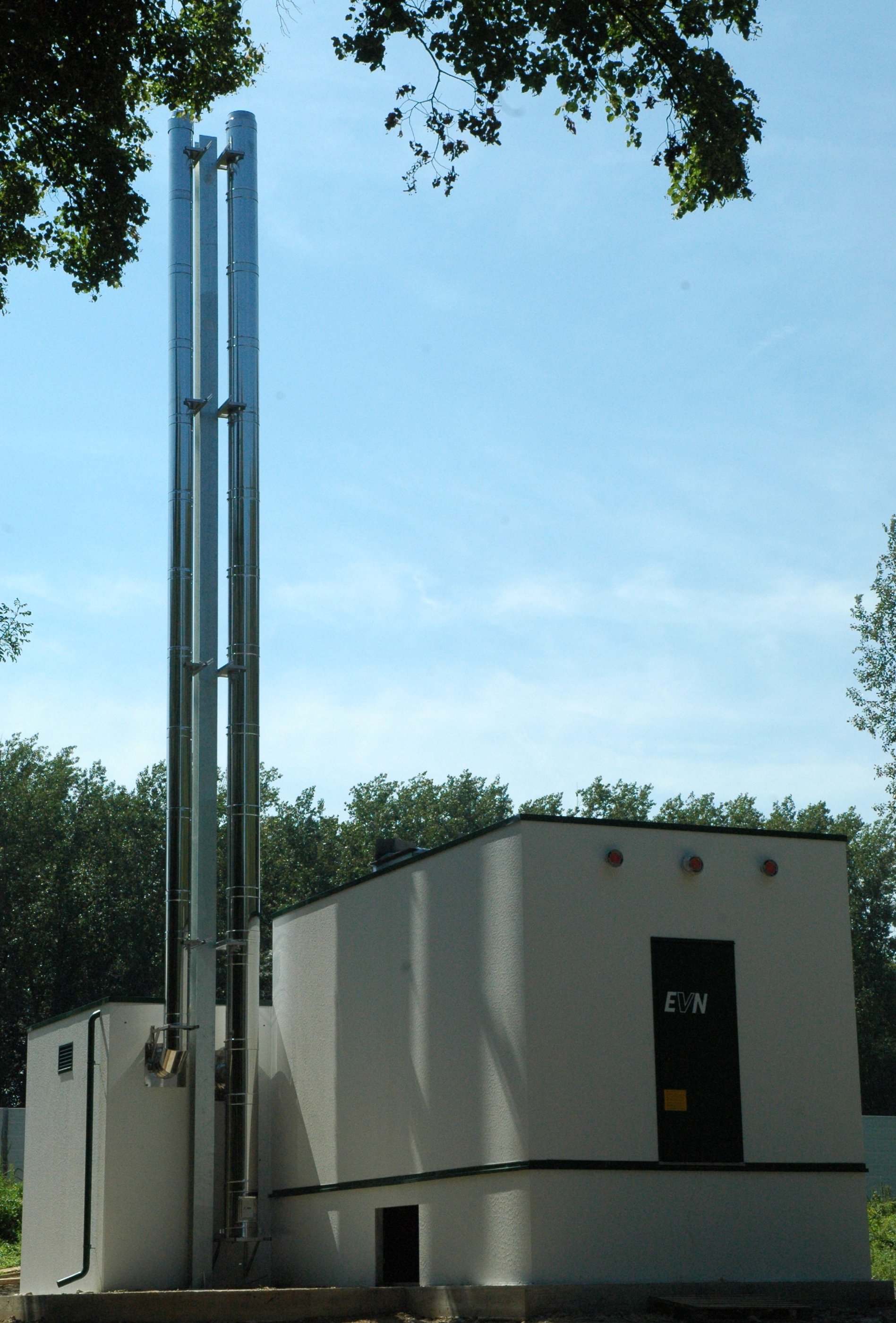 Biomasse Heating Plant of Spillern